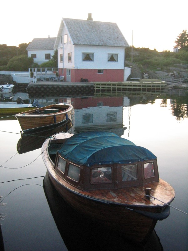 Author is Eric Mathiasen (myself). I took it in June, 2003.